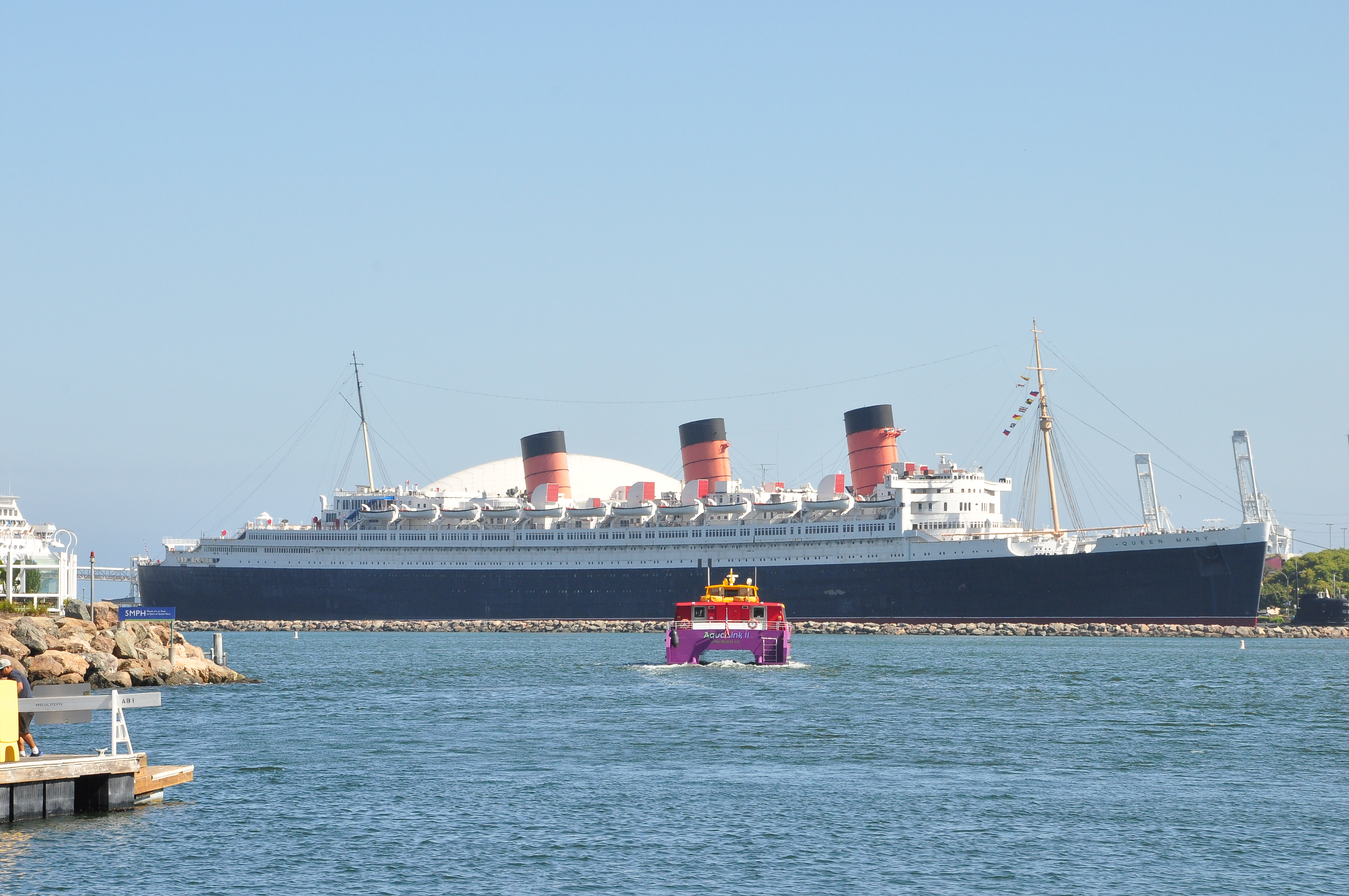 RMS Queen Mary